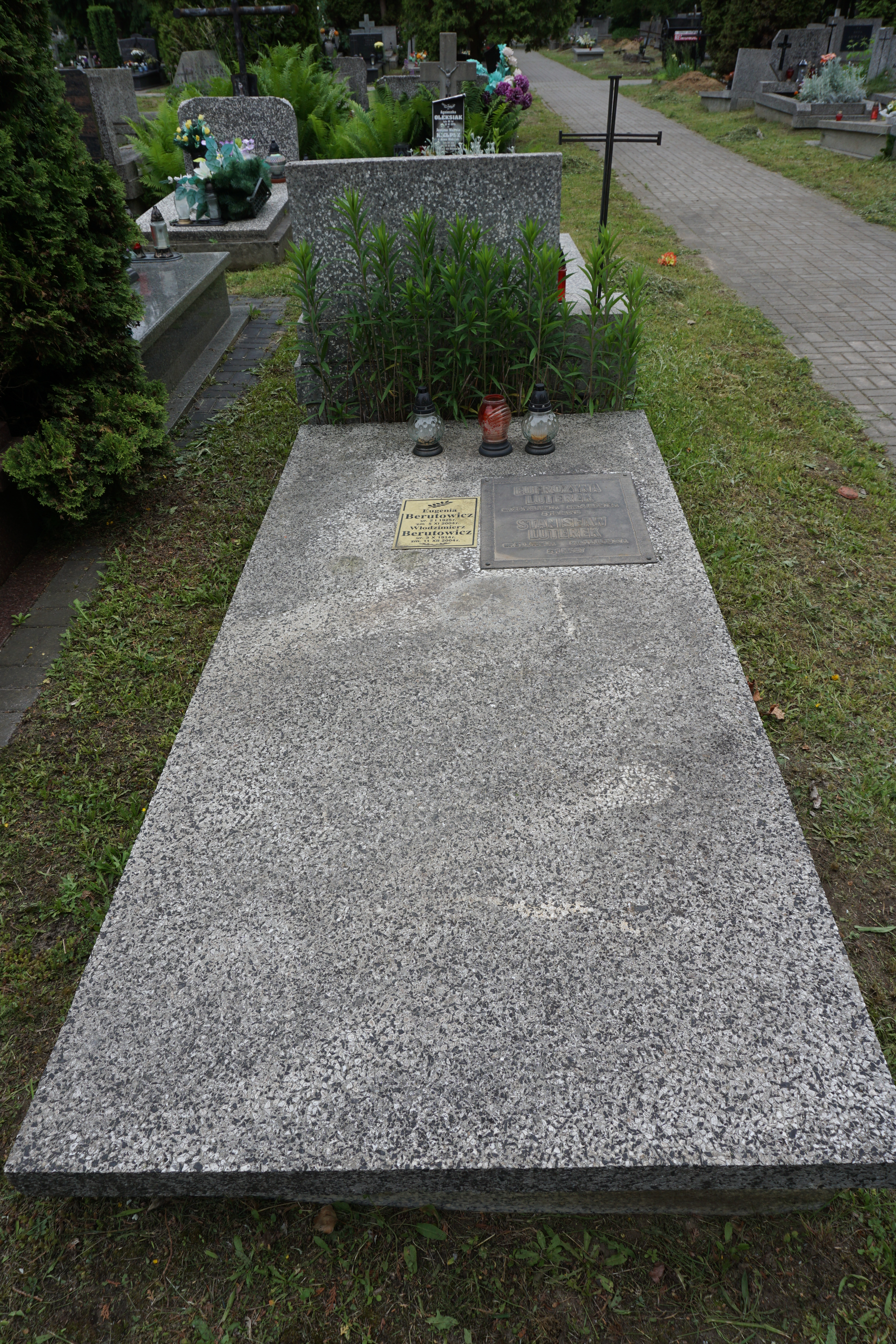 The grave of Włodzimierz Berutowicz at the North Municipal Cemetery in Warsaw (section E-XVII-3, row 5, grave 1)